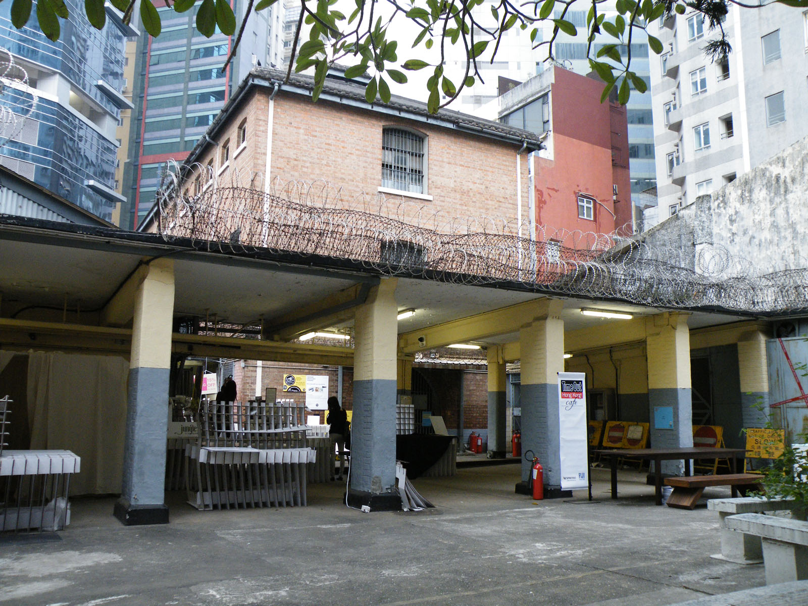 Victoria Prison hall E